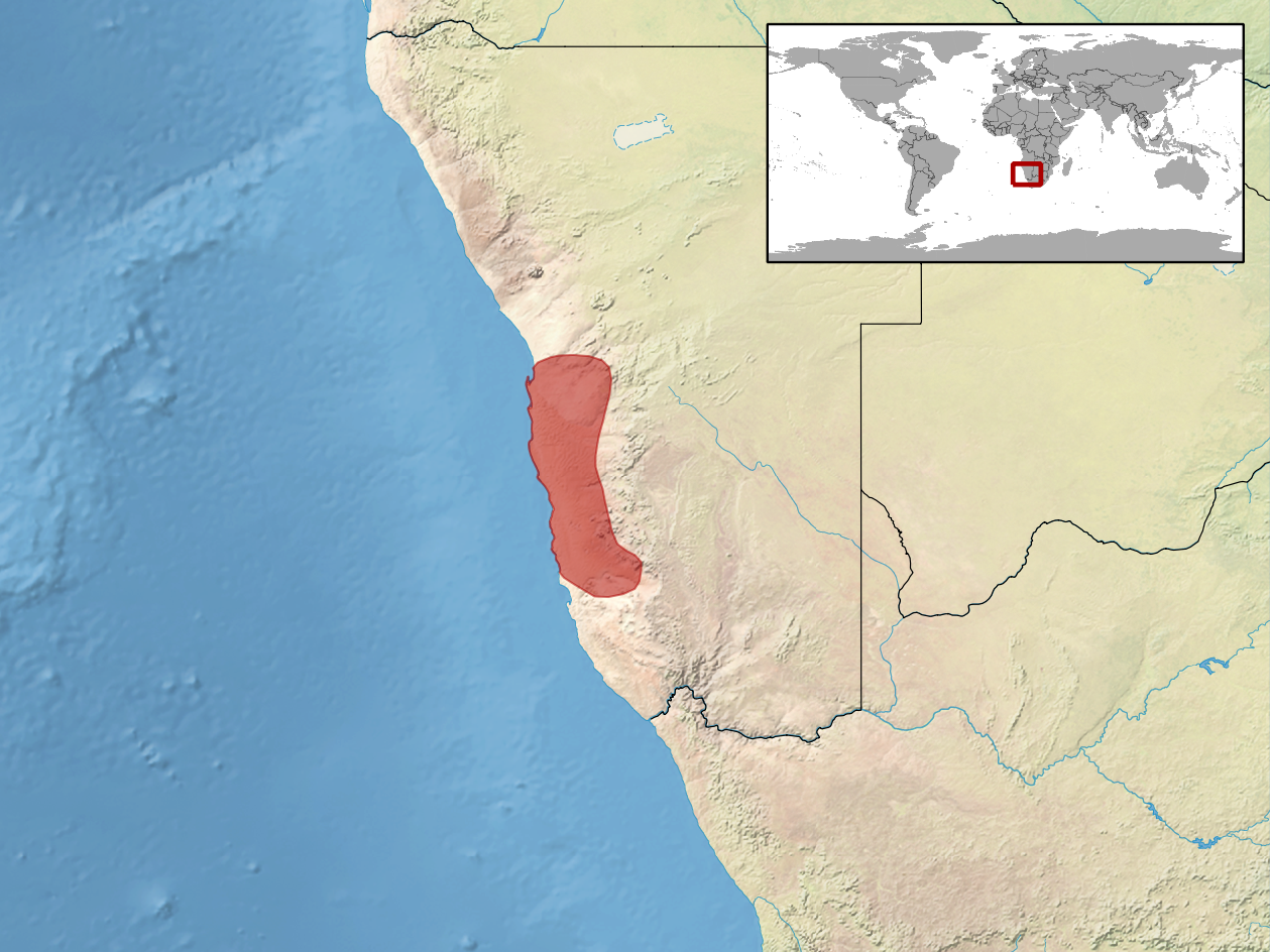 geographic distribution of Ptenopus kochi (Native: Namibia)